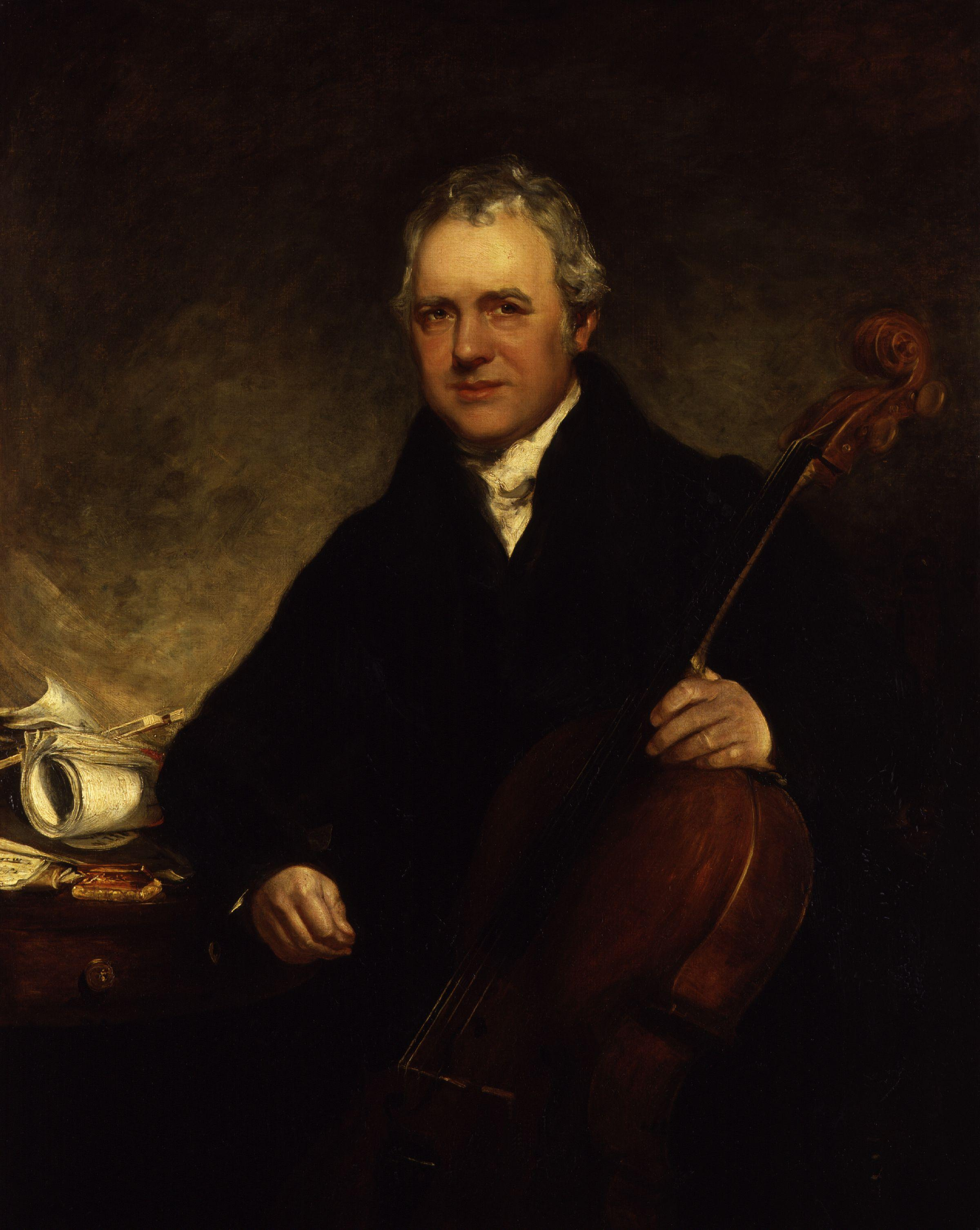 Robert Lindley, by William Davison (floruit 1813-1843). All images in this batch have a known author with unknown death date, but according to the NPG's website the author was floruit (known to be active) prior to 1859, and so is reasonably presumed dead by 1939.